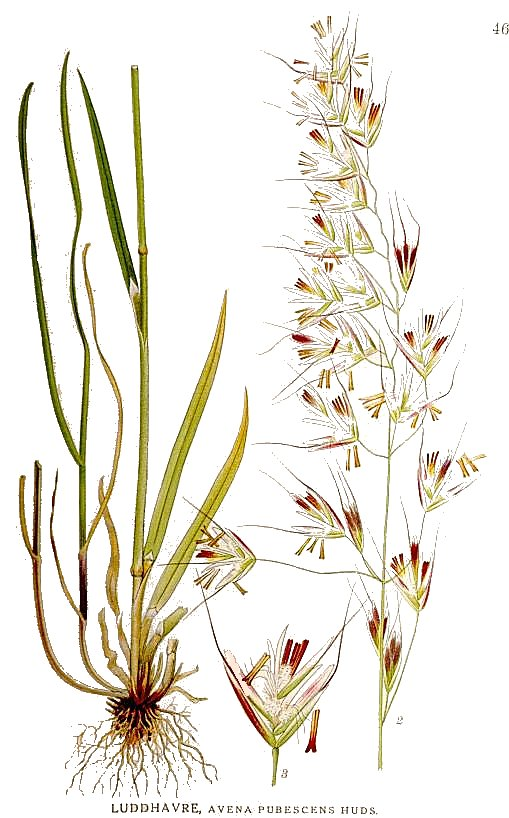 Helictotrichon pubescens (Huds.) Pilg., syn. Avena pubescens Huds. Original description "Luddhavre", Avena pubescens Huds.